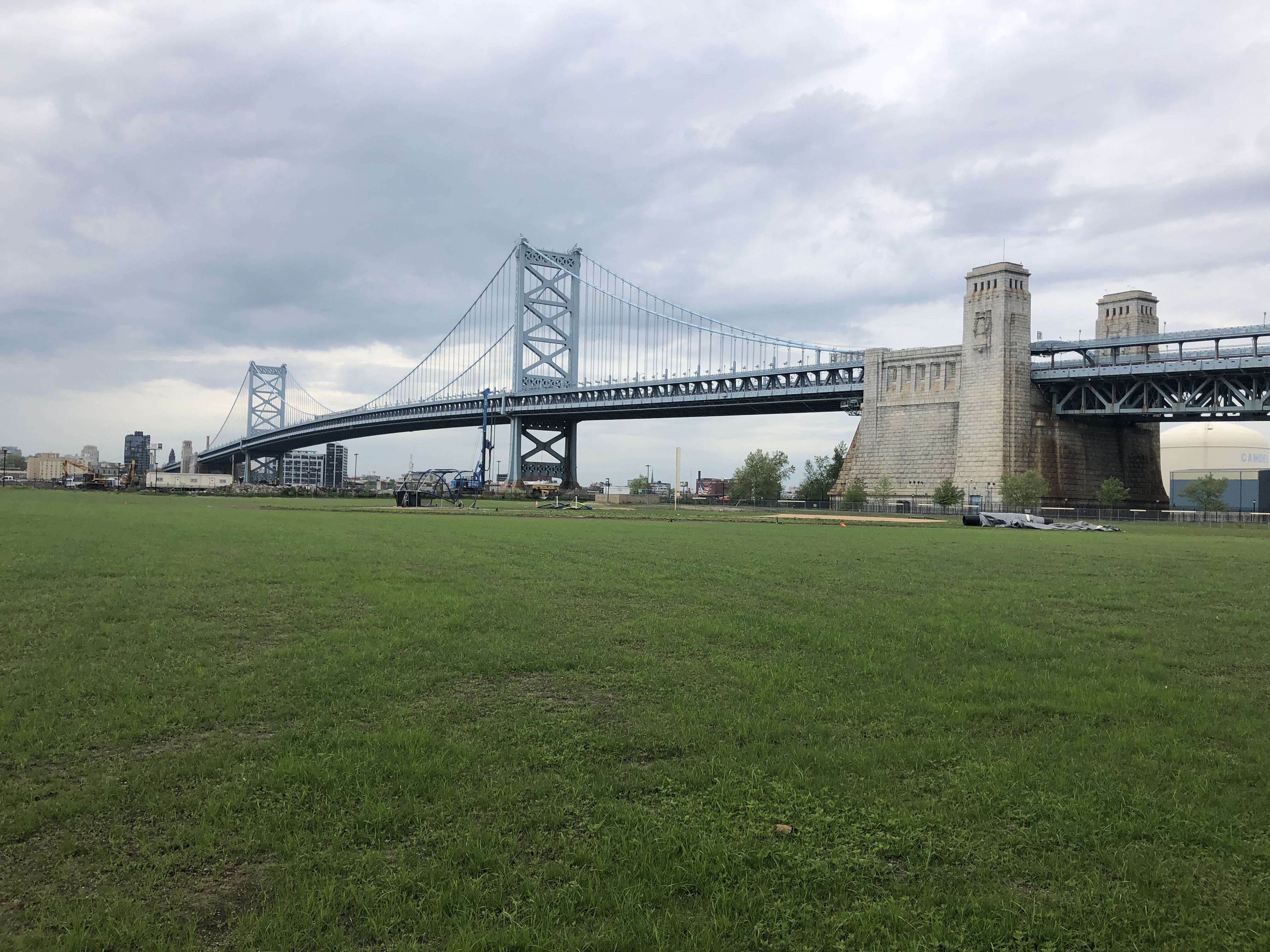 The site of Campbell's Field after demolition, with the Ben Franklin bridge in the background